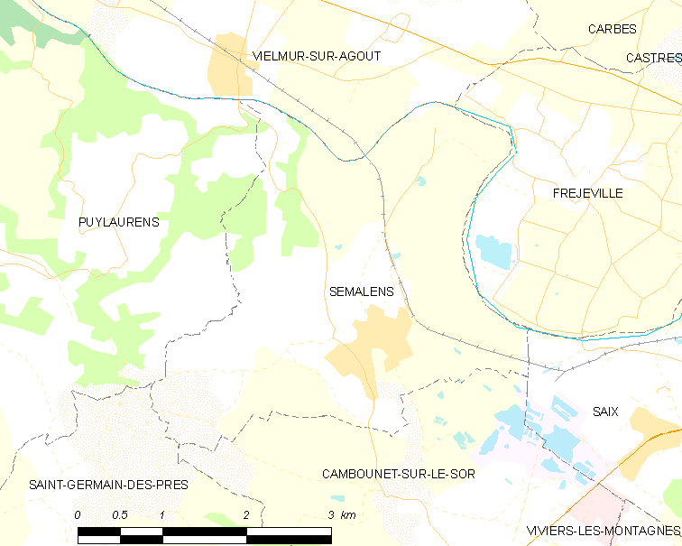 Map of French municipality Sémalens